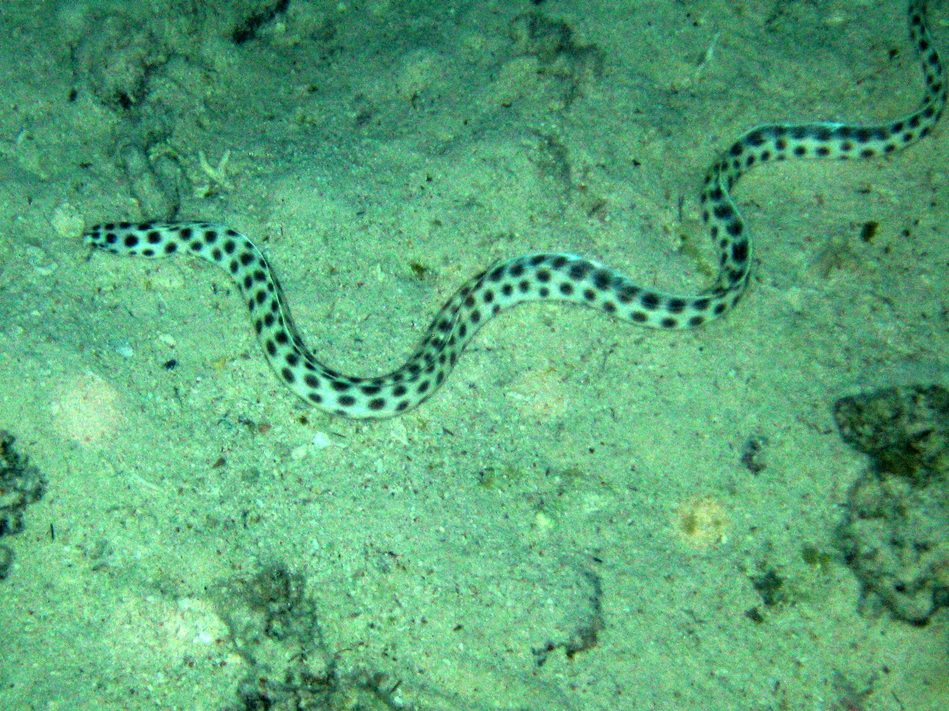 Tiger snake eel (Myrichthys maculosus)